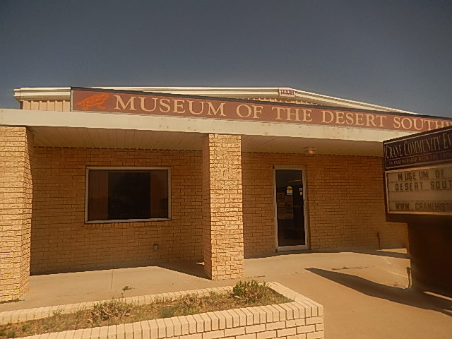 I took photo of Museum of the Desert Southwest in Crane, TX, with Nikon camera.